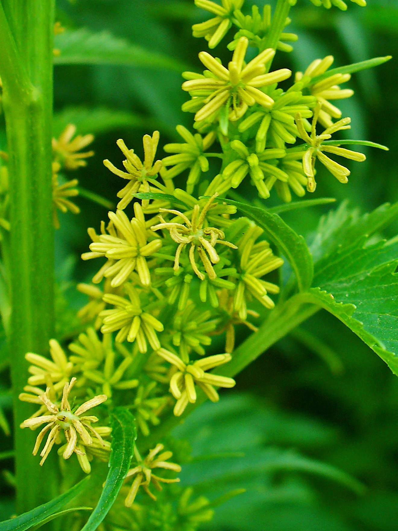 Datisca cannabina, Datiscaceae, Acalbir, male flowers. The blooming plant is used in homeopathy as remedy: Datisca cannabina (Datis.)